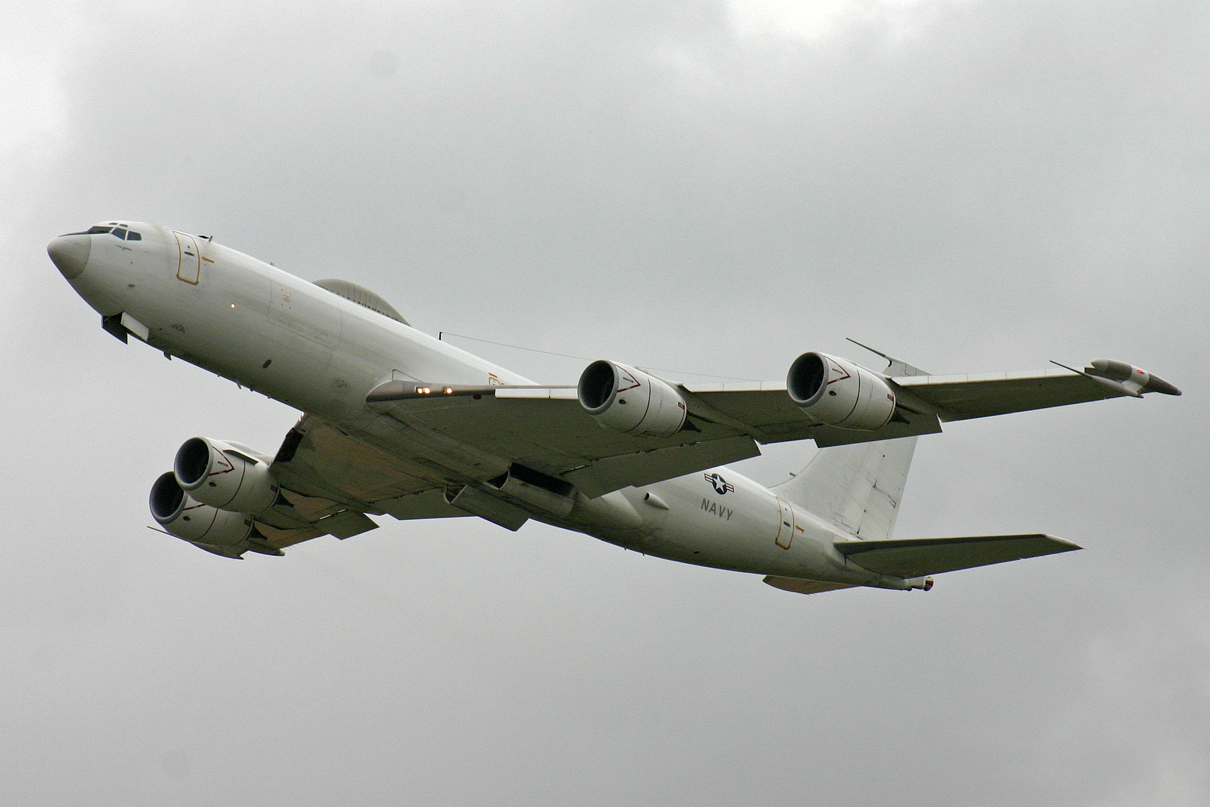 From US Navy VQ-4. msn 24505, l/n 0998. Departing RIAT Fairford. 18-7-2011